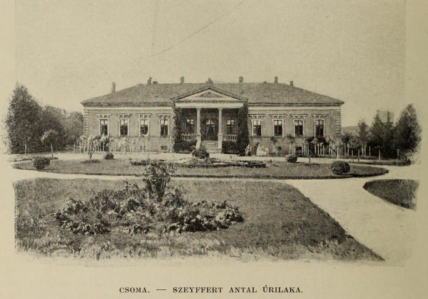 Mansion in Csomatelke